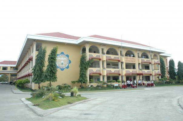 College of the Immaculate Conception High School Department.jpg